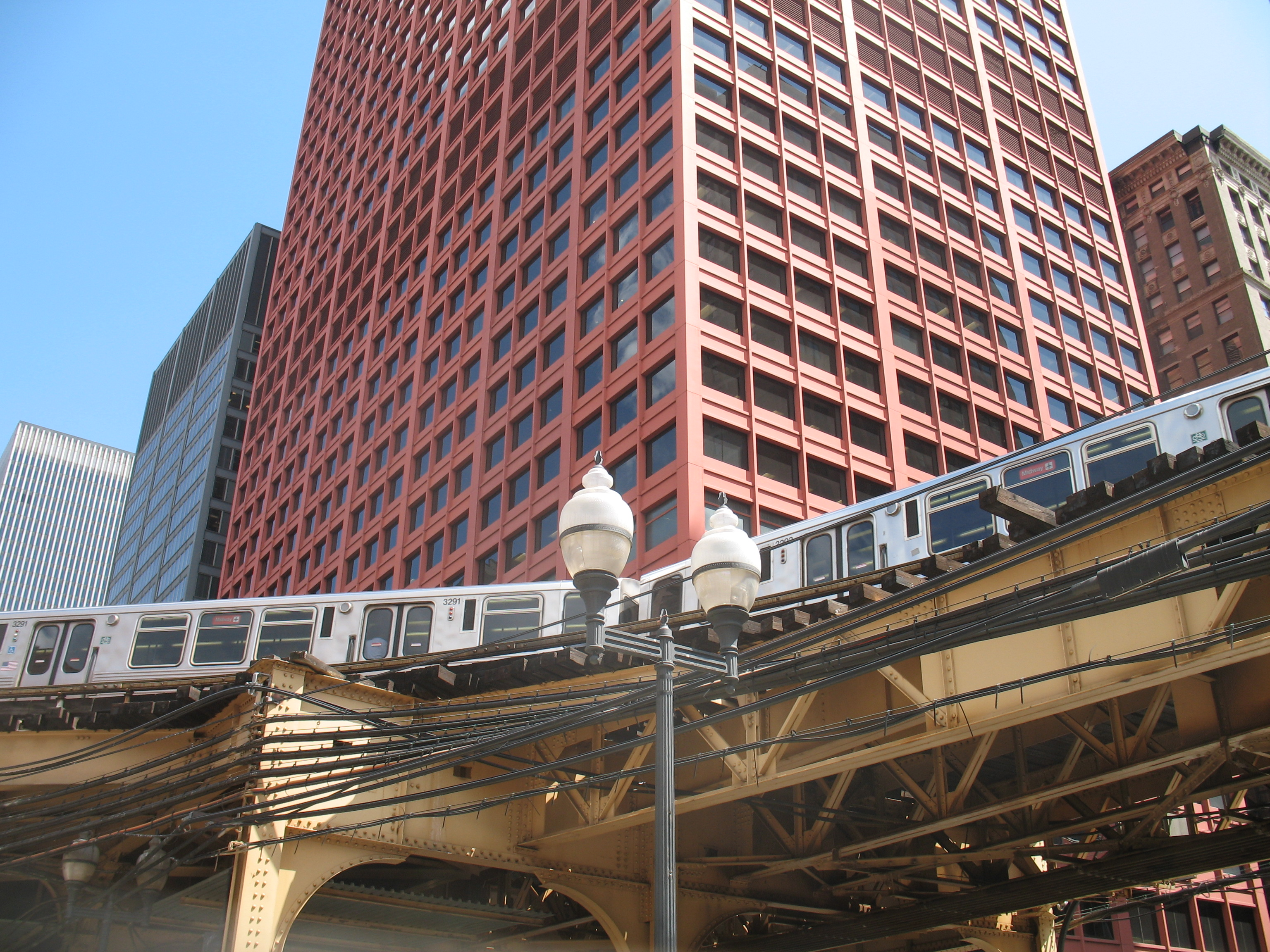 CTA train. CTA train, Chicago.